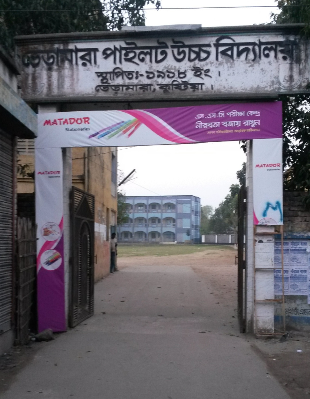 প্রবেশদ্বার